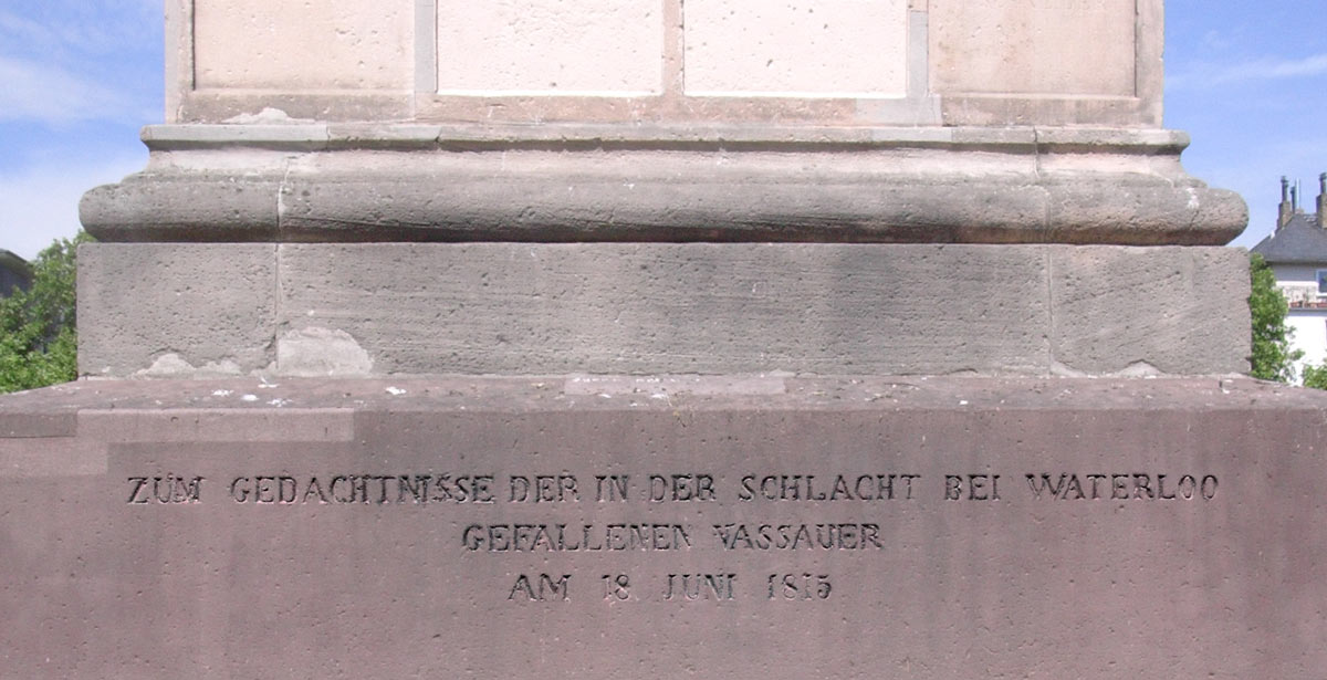 Waterloo Memorial in Wiesbaden, Germany, Text at base: In memory of the Nassaus fallen at the Battle of Waterloo on 18th June 1815